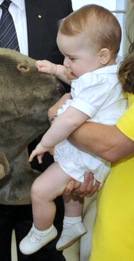 Prince George of Cambridge (16 April 2014)